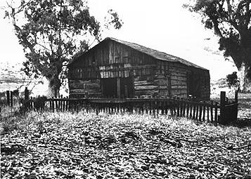 The Cooper cabin built in 1888 is the oldest structures still existent in Big Sur, California today.